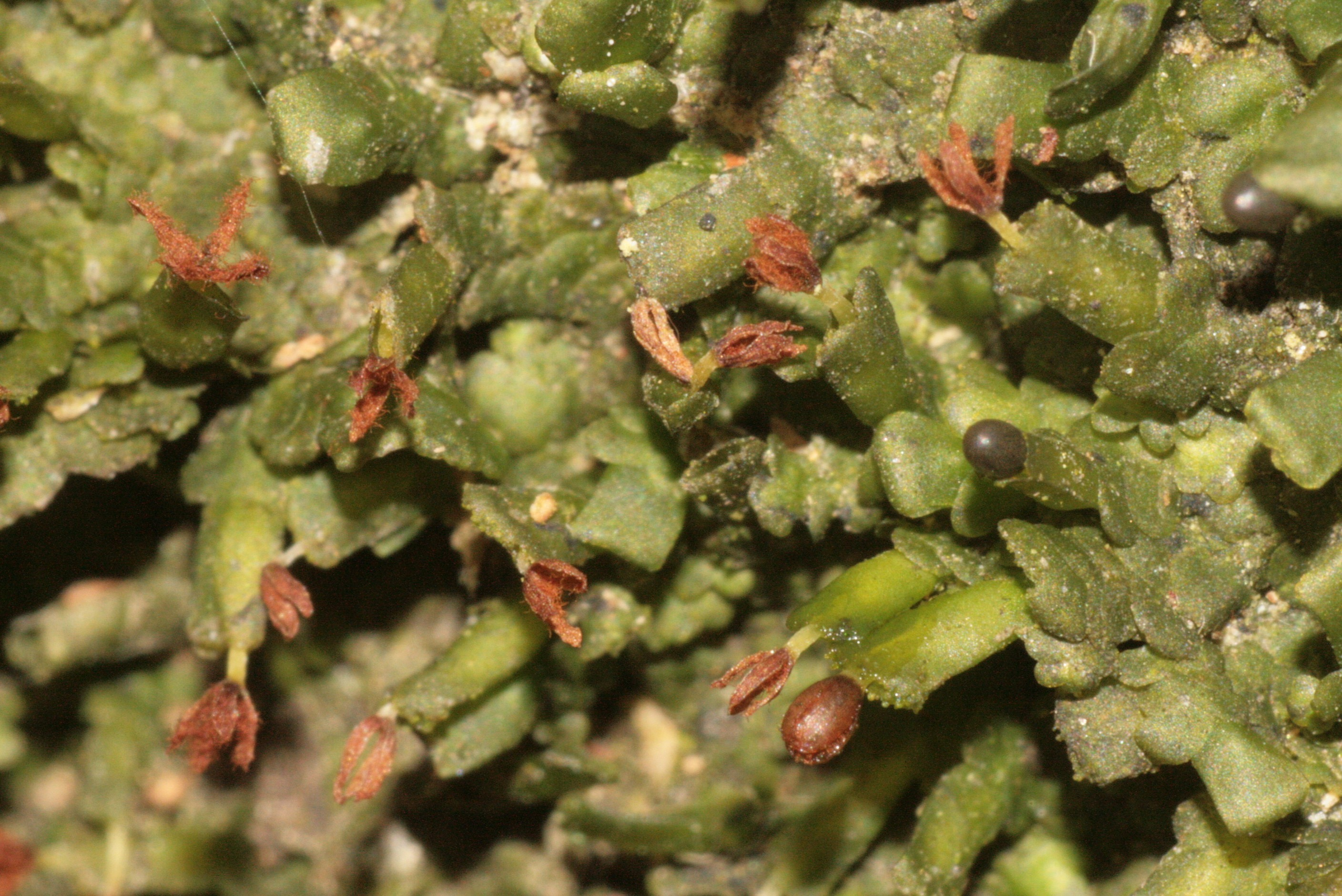 Radula complanata